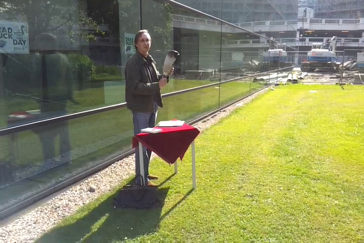 Kees Moeliker conducting the Dead Duck Day ceremony for the 16th time